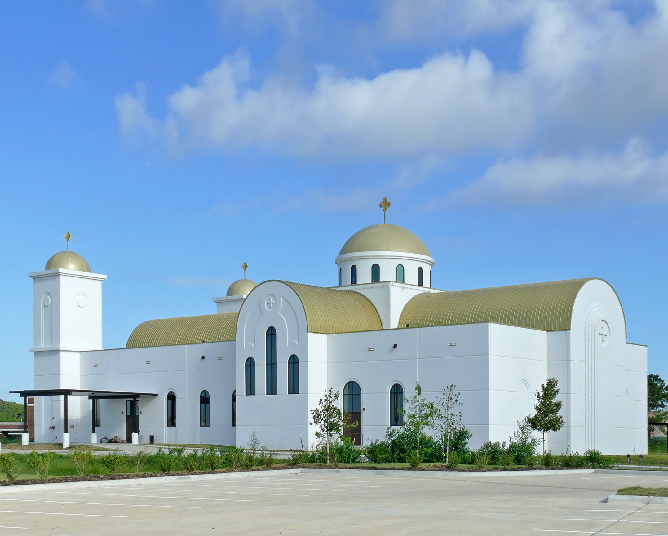 Archangel Raphael Coptic Orthodox Church -- Houston, Clear Lake City, Texas